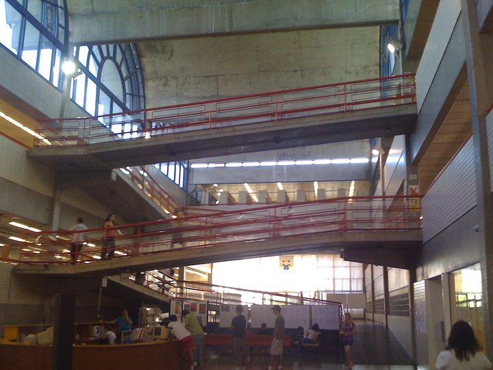 Visão Interna da Biblioteca Comunitária da UFSCar